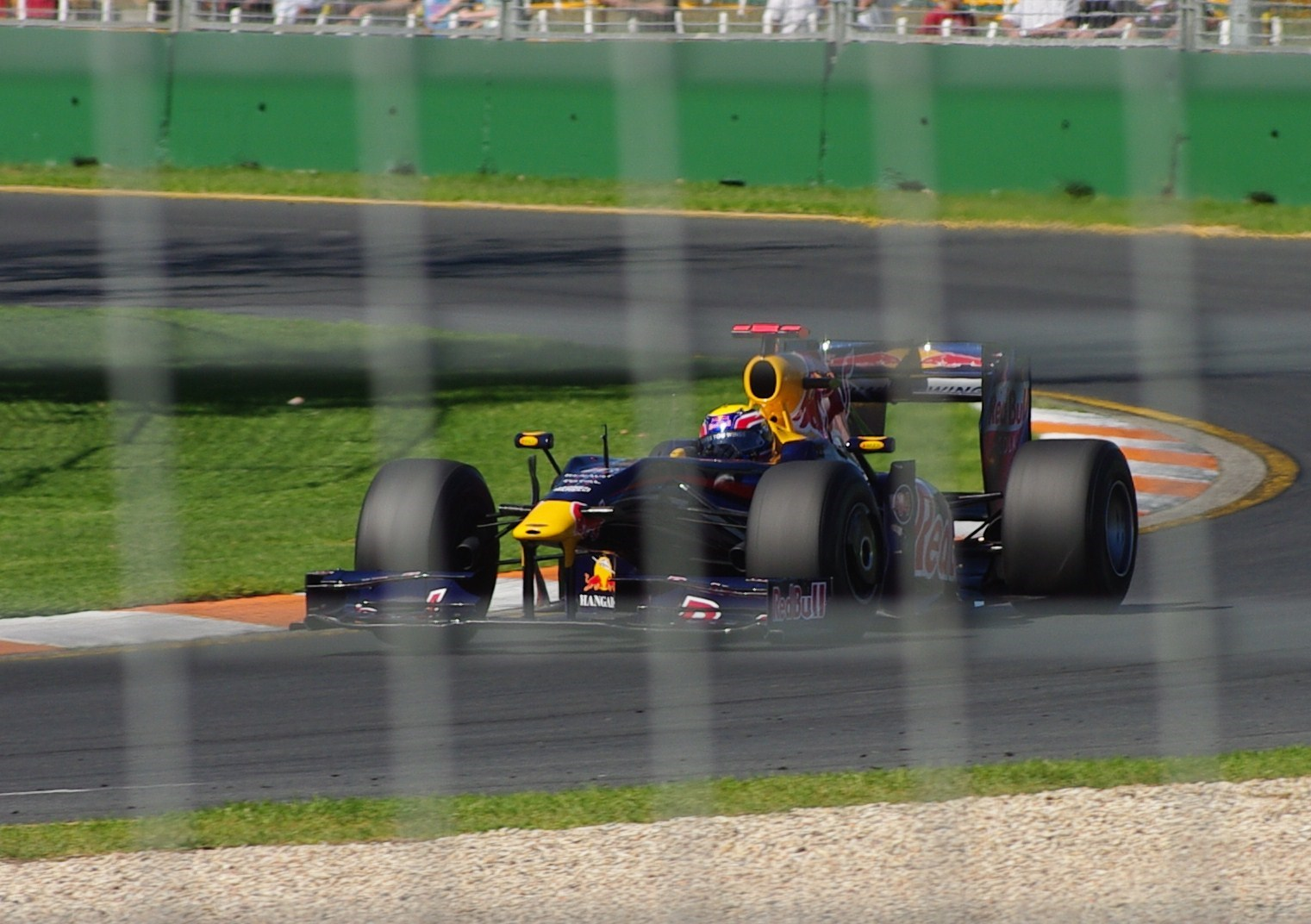 Mark Webber at 2009 Australian Grand Prix, Melbourne, Australia